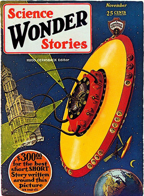 Cover of the November 1929 issue of Hugo Gernsback's pulp science fiction magazine Science Wonder Stories, drawn by notable pulp cover artist Frank R. Paul. This is claimed to be one of the first depictions of a "flying saucer", although earlier covers (since 1912) with depictions of such flying saucers can be found ( Saucer-shaped aircraft or spacecraft like this depicted in the fantasy artwork of 1930s pulp science fiction magazines have been credited as responsible for the rash of "flying saucer" sightings beginning in 1948.